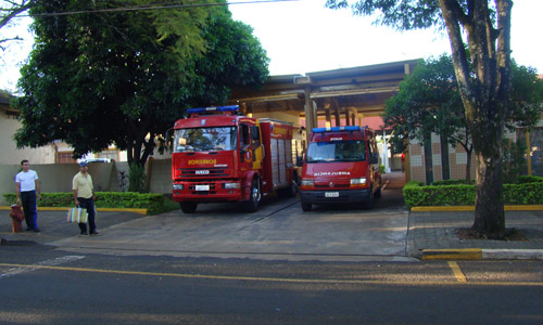 Posto Alvorada (Fire station) of the 5th GB (Fire Department of Maringá City) of Military Police of Parana State - Brazil.